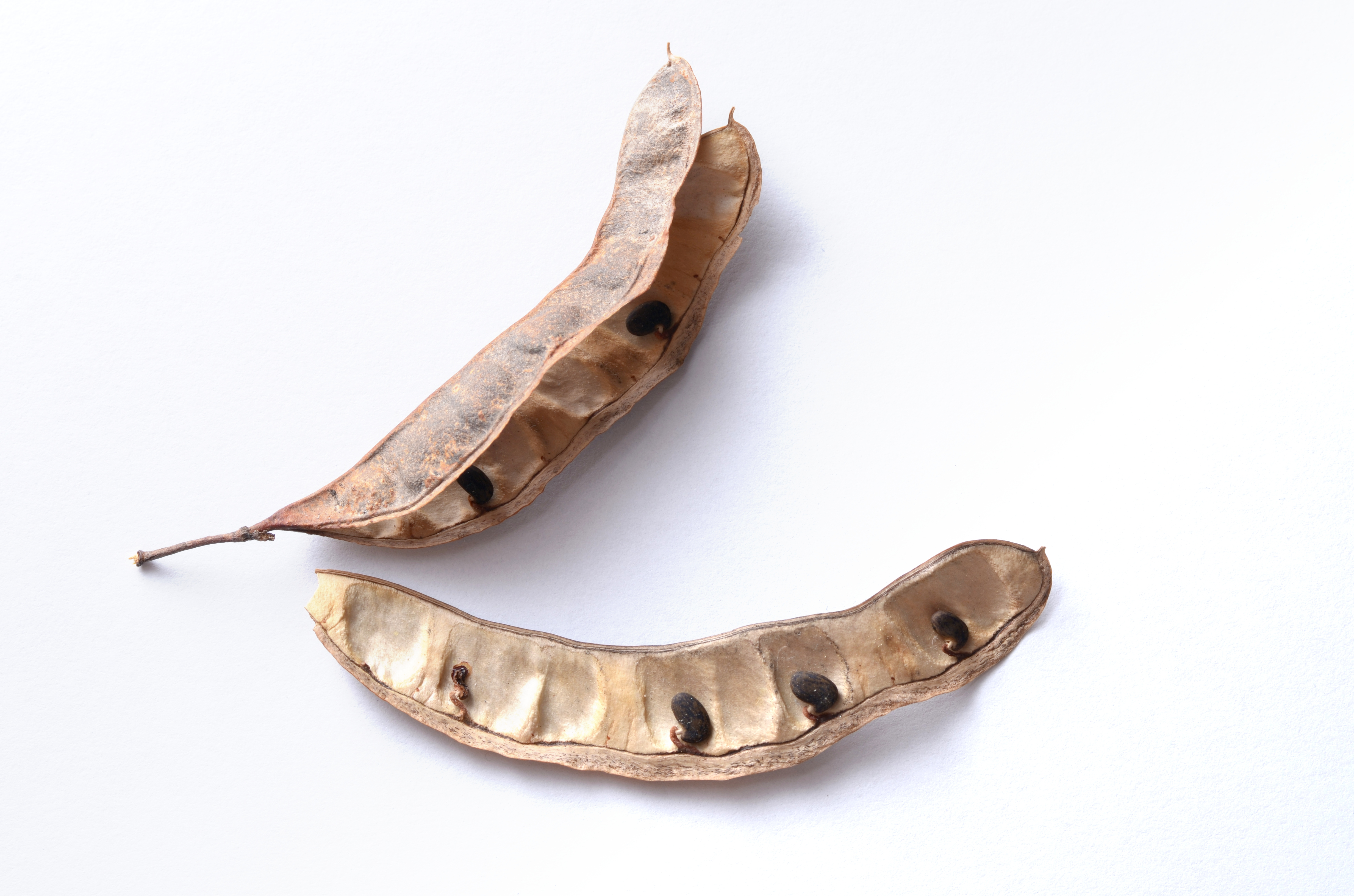 Seeds of the Robinia pseudoacacia, harvested around May. They keep hanging on the tree over winter.